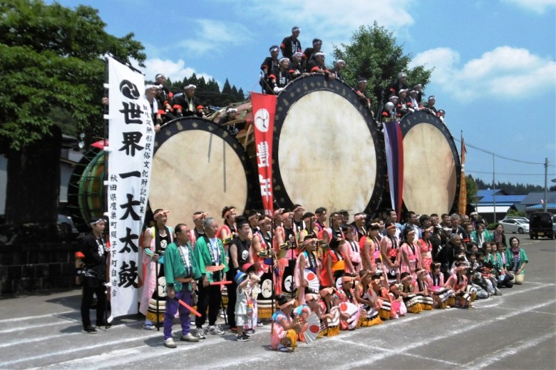 Tsuzureko shrine festival in Kitaakita City, Akita Prefecture, Japan